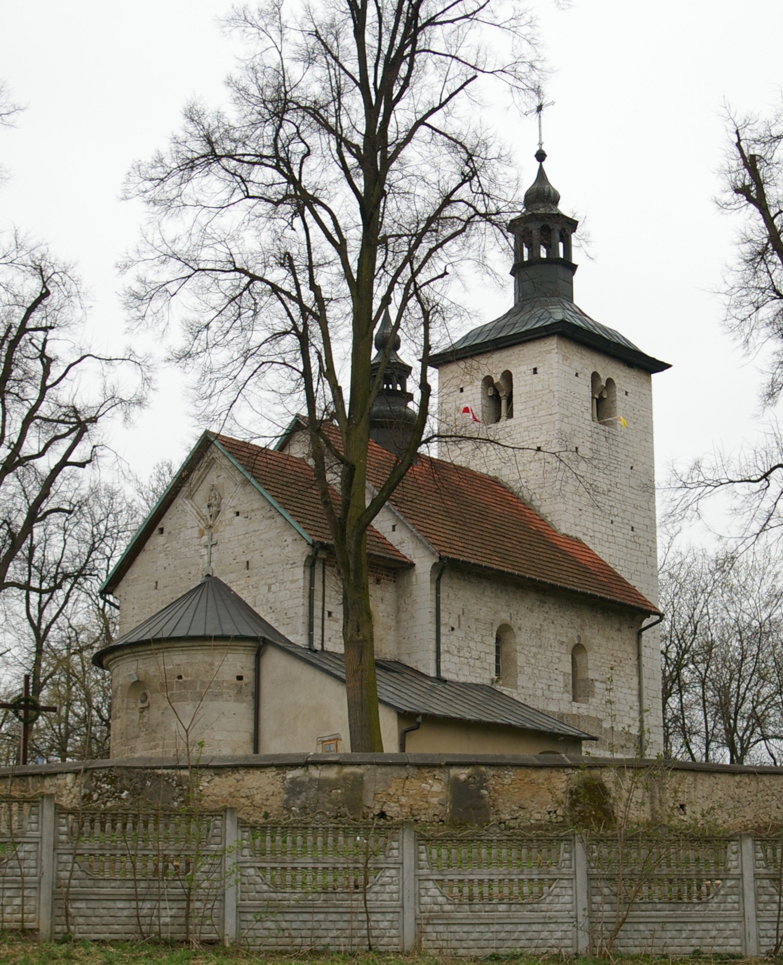 Church of St. Nicholas in Wysocice, Poland